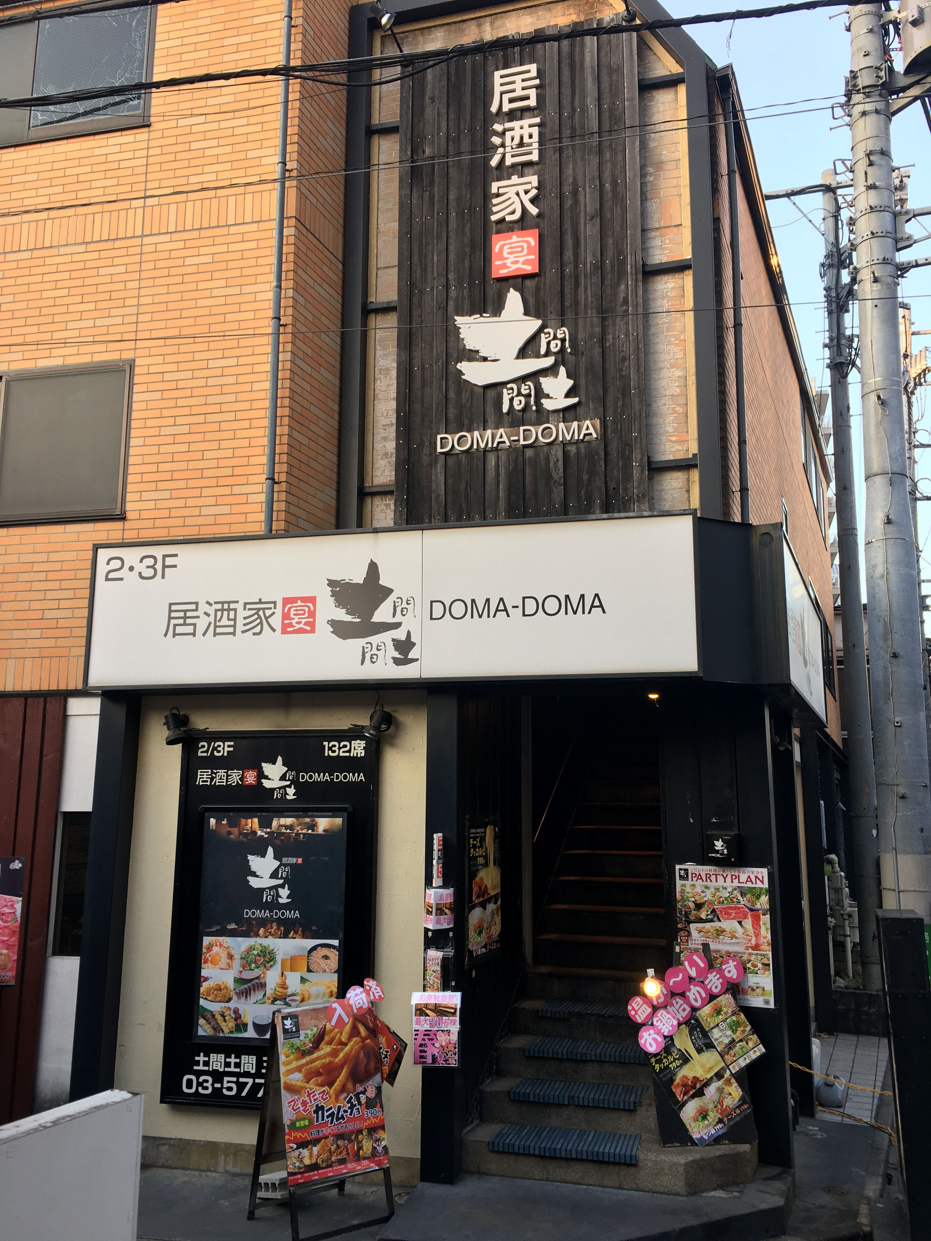 Doma-Doma (Japanese bar chain) Sangendyaya branch (Tokyo, Japan)